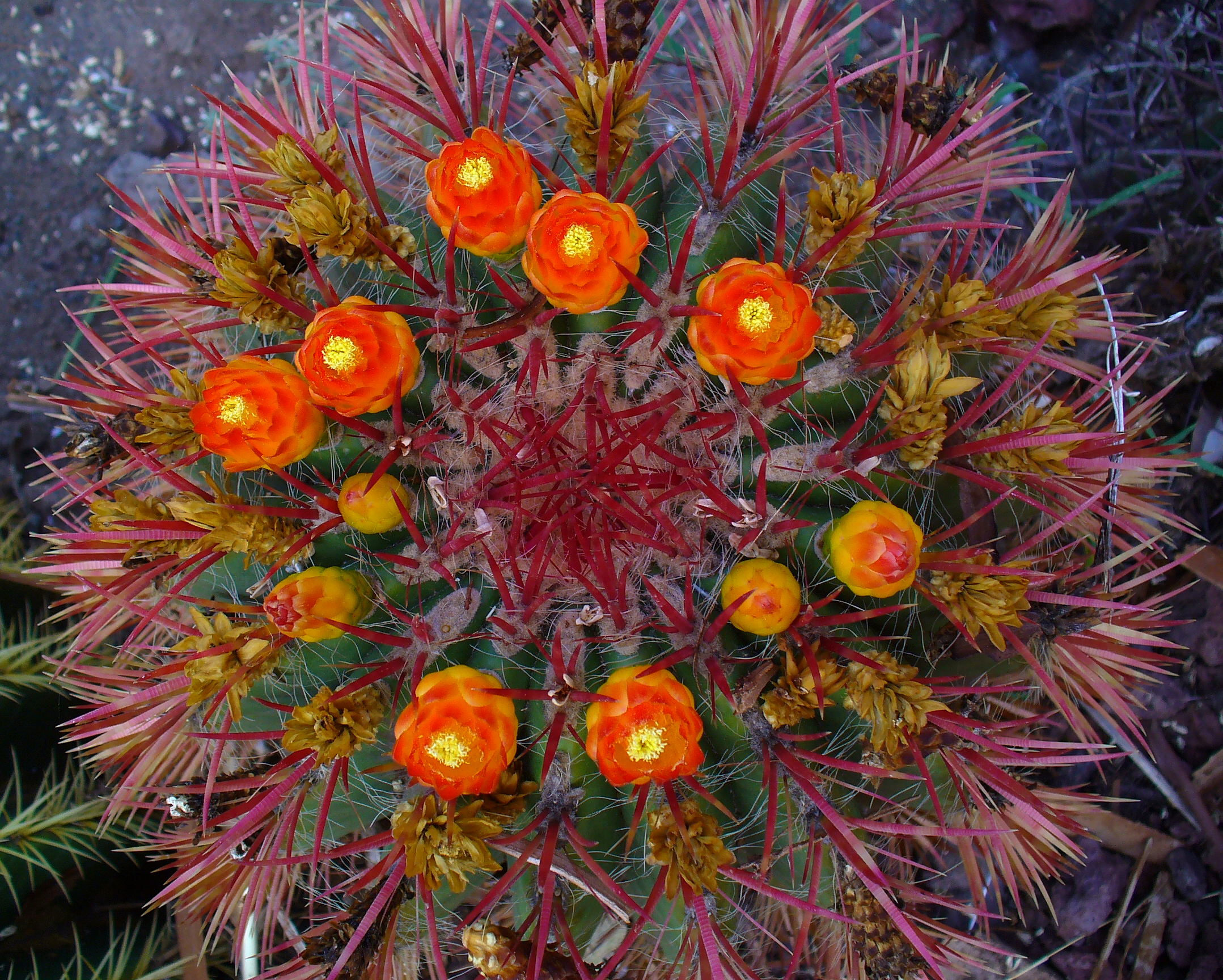 Flowers; Cactualdea, Tocodoman, Gran Canaria, Spain.